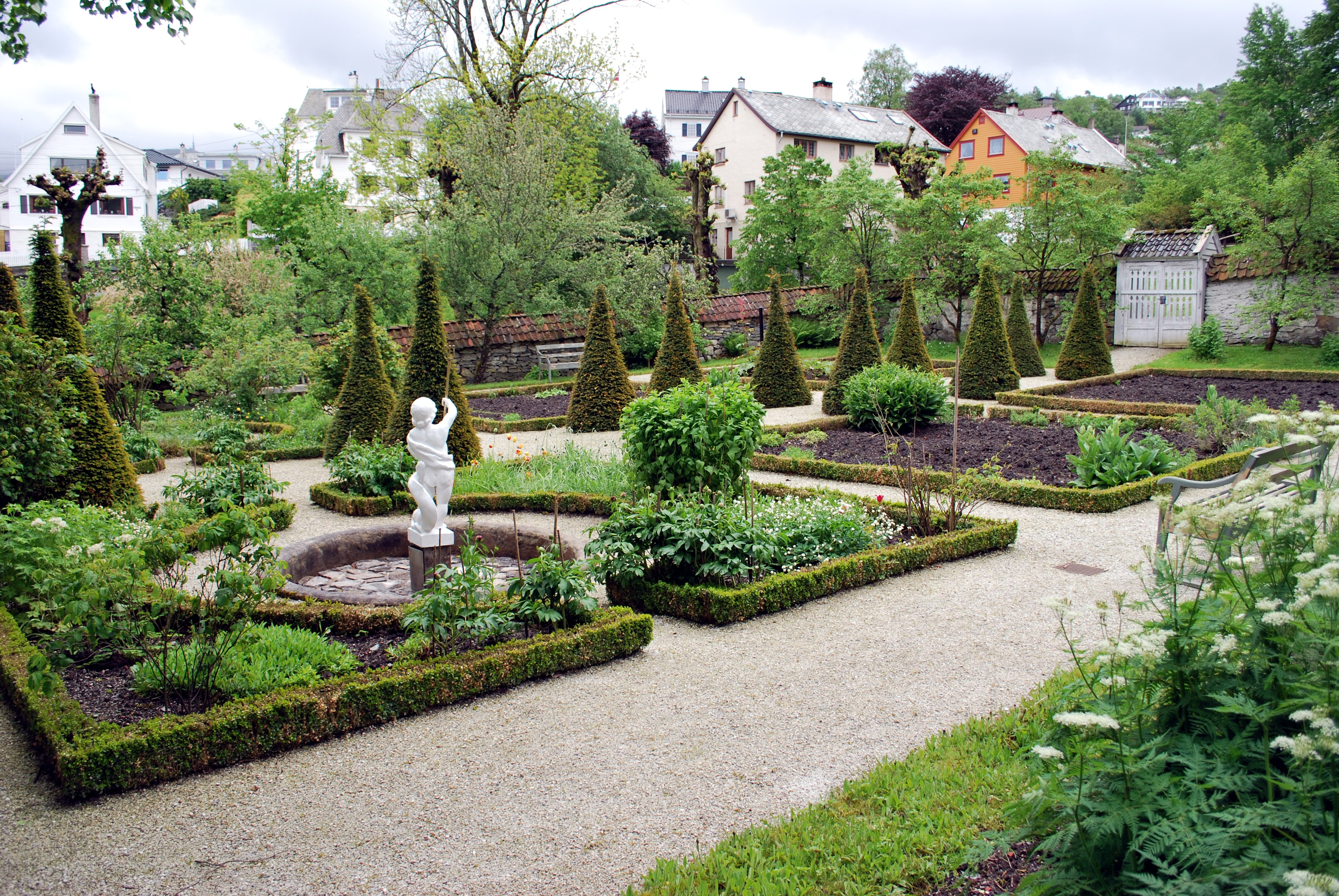 Damsgård hovedgård in Bergen.